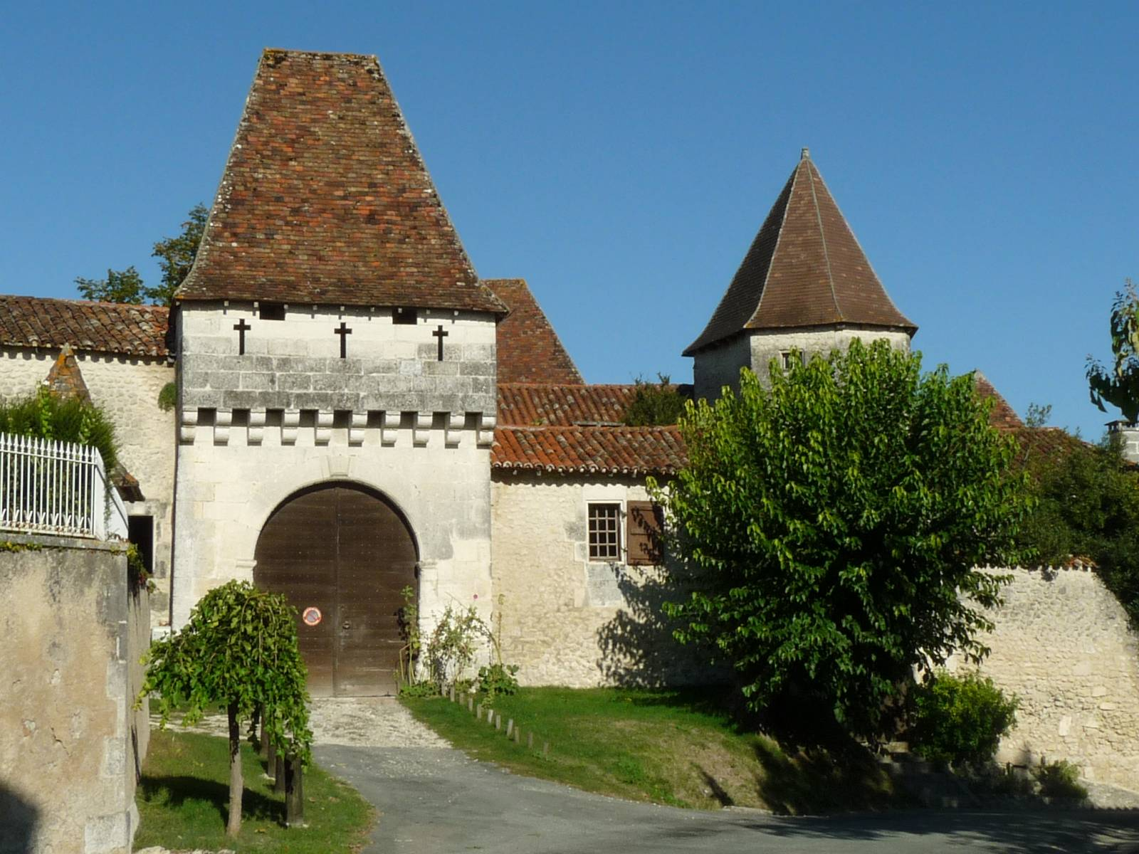 castle of Lusignac, Dordogne, SW France